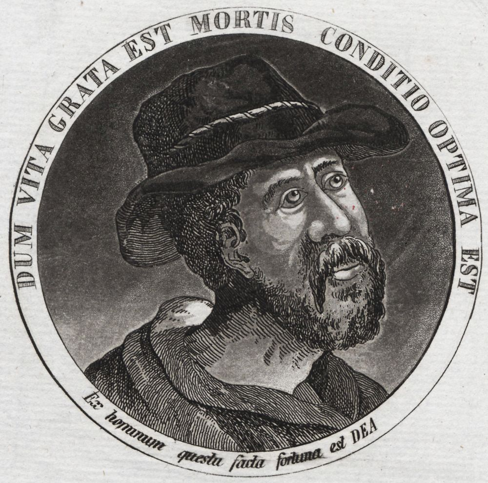 Sebastian Klonowic